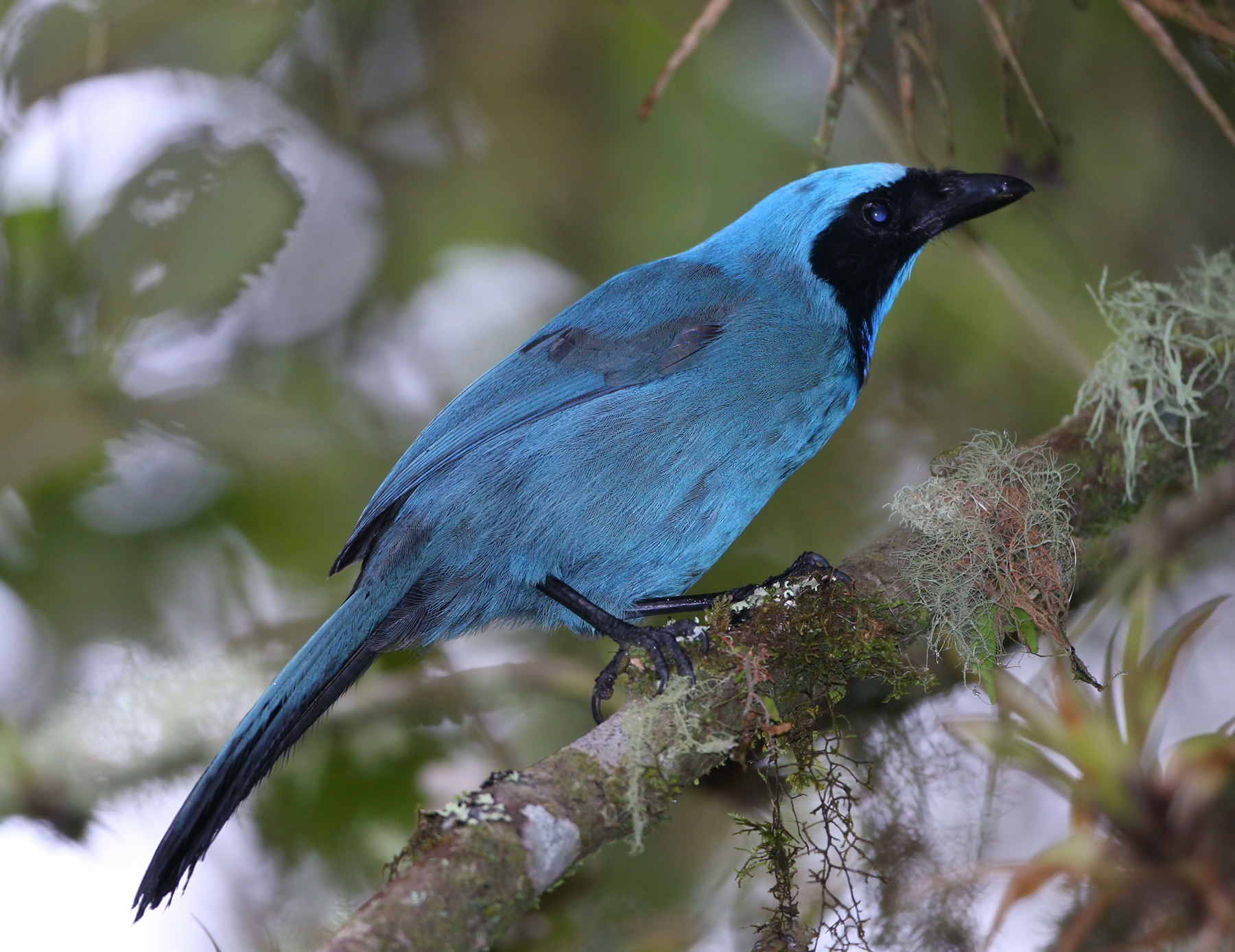 Turquoise jay (Cyanolyca turcosa), Guango Lodge, Ecuador